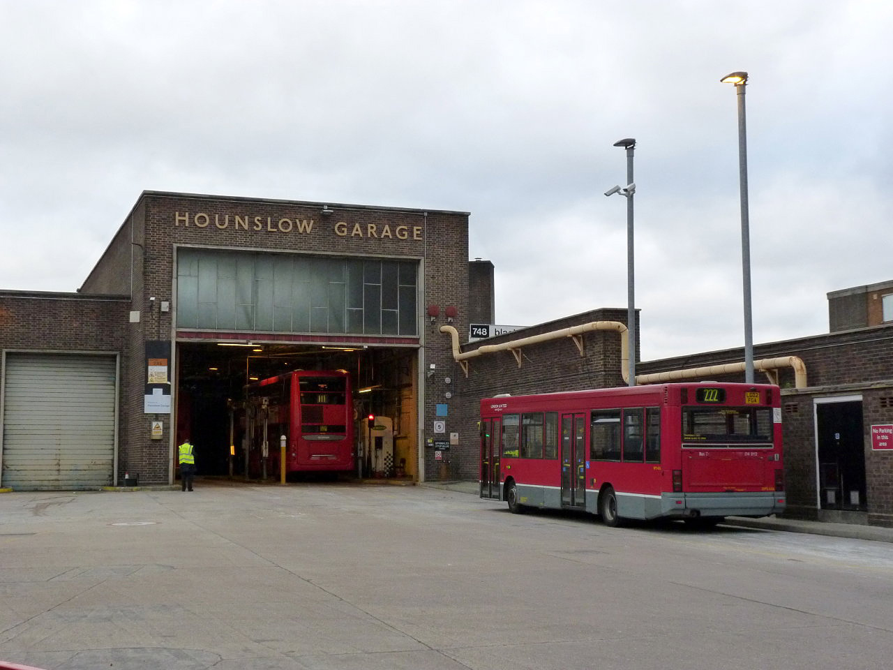 Hounslow Garage, Data from Geograph: Description: In the early post-WW2 London Transport style of architecture. The garage and adjoining bus station are on the site of the original District Line Hounslow Town Station. After initial closure when the railway was extended to Hounslow... more ICBM: 51.471233974615, -0.35460114064258 Location: (about 1 km from) near to Hounslow, Great Britain.